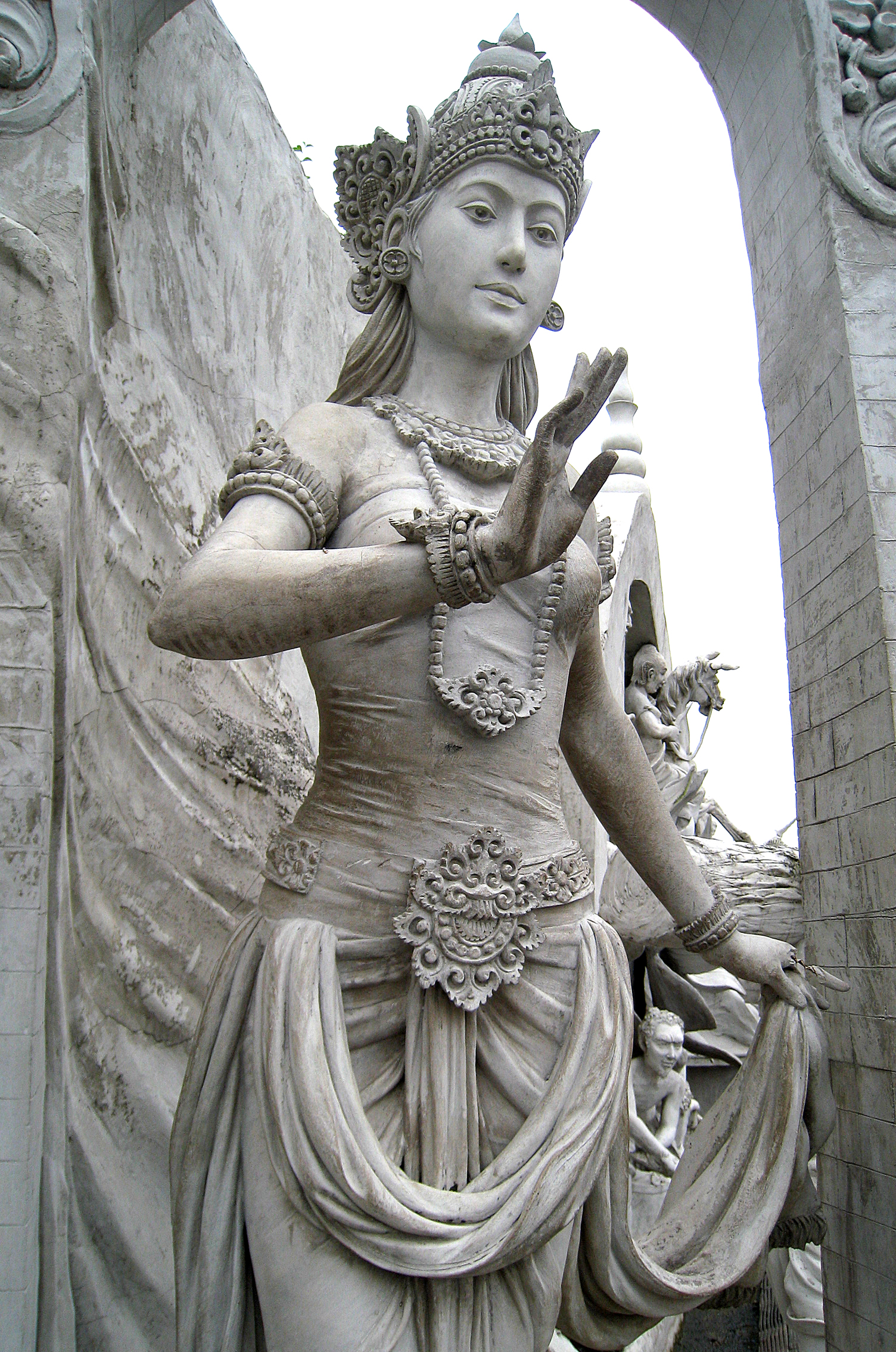 The statue of a woman in regal ancient Java attire in Monas (National Monument), Jakarta. The statue probably depicting Suhita, the Queen of Majapahit kingdom, or probably Ibu Pertiwi, the National Personification of Indonesia.